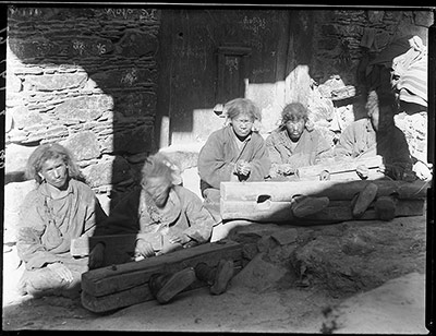 Prisoners in Potala Sho prison